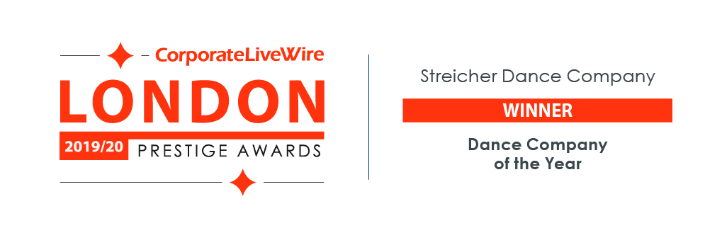 Dance Company of the Year - 2019